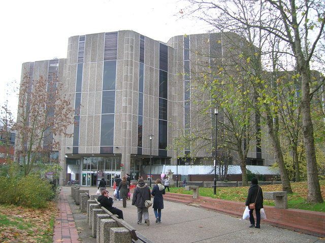 Civic Centre Seen from rear of the Broad Street Mall